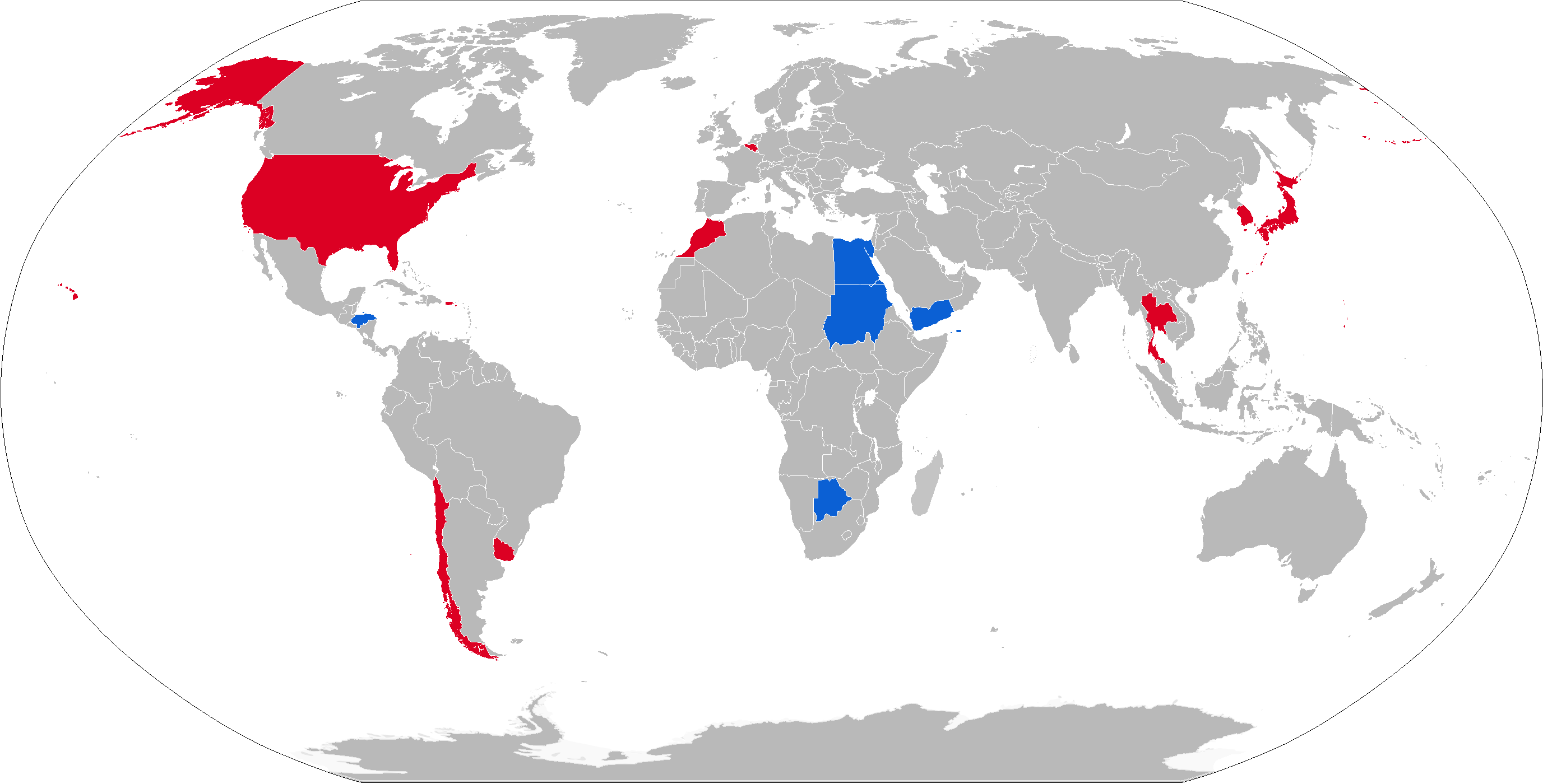 Map with M167 VADS operators in blue with former operators in red